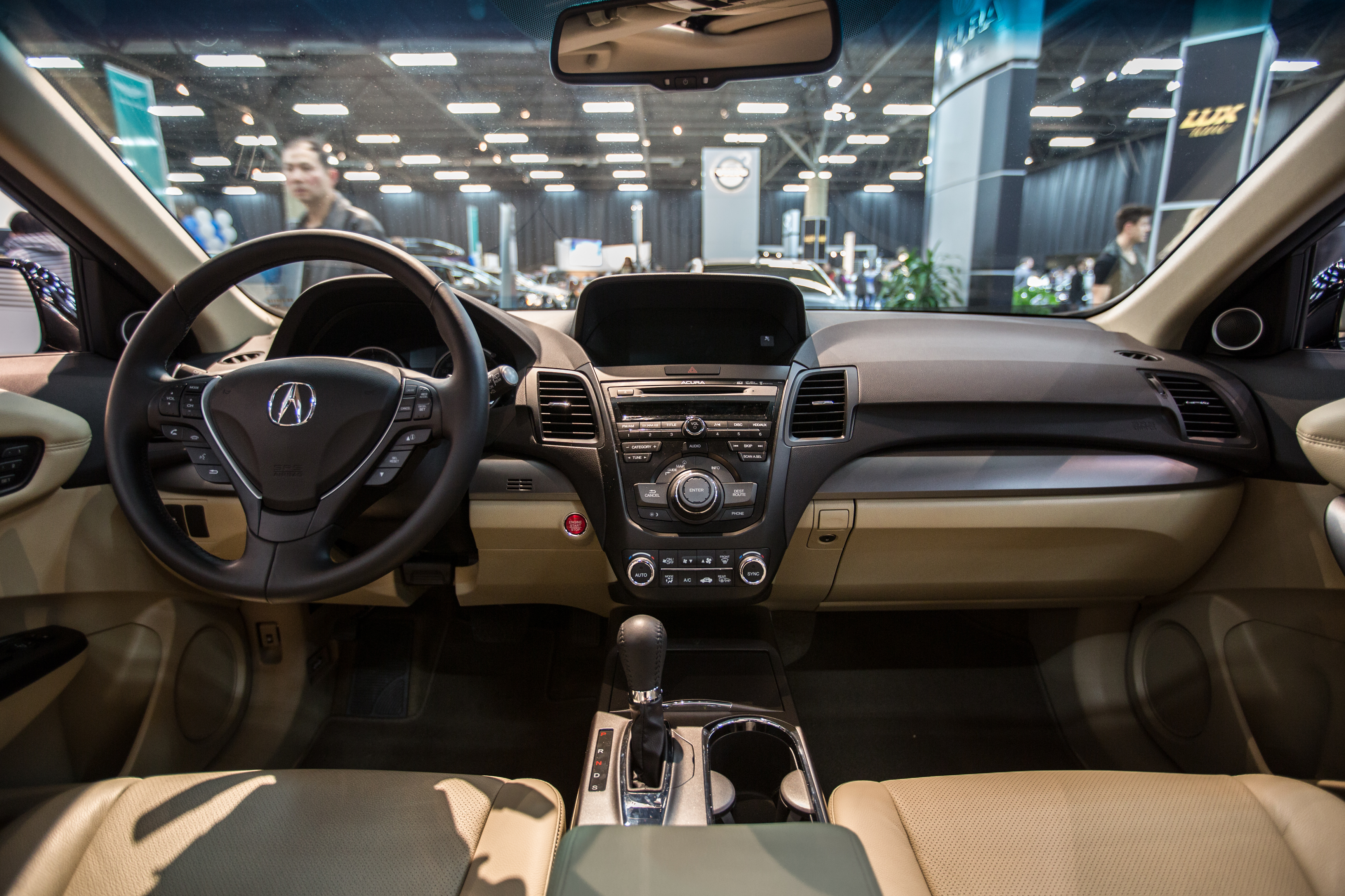 Edmonton Motor Show 2014